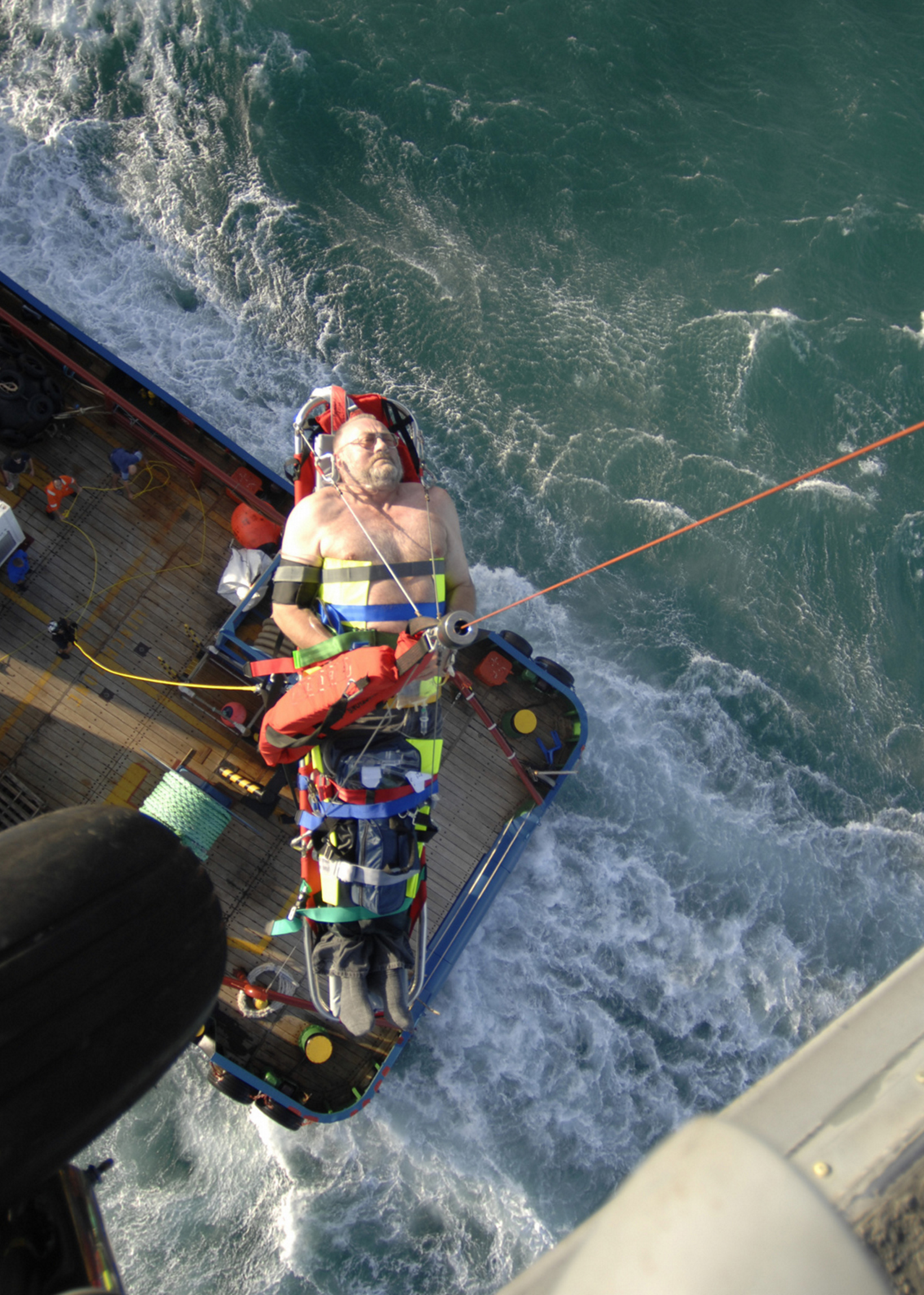 ATLANTIC OCEAN (Nov. 12, 2008) Team members from Helicopter Sea Combat Squadron (HSC) 28, Detachment 5 embarked aboard the amphibious assault ship USS Kearsarge (LHD 3) hoist a Norwegian man during a search and rescue medical evacuation from the ocean-going tug SVC Tanux II. Kearsarge launched a search-and-rescue aircraft in response to an emergency medical distress call. The victim was transported to Guyana for further medical evaluation. Kearsarge is supporting the Caribbean Phase of the humanitarian and civic assistance mission Continuing Promise 2008, an equal partnership mission between the United States, Canada, the Netherlands, Brazil, Nicaragua, Colombia, Dominican Republic, Trinidad and Tobago and Guyana. (U.S. Navy photo by Mass Communication Specialist 2nd Class Erik Barker/Released)